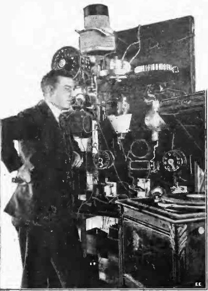 One of the earliest radio broadcasting events, Lee De Forest's broadcast of the Wilson-Hughes presidential election returns from the De Forest laboratories, Highbridge, New York, November 7, 1916. An estimated 7,000 radio listeners within 200 miles of New York City heard election returns provided by the New York American newspaper offices, interspersed with patriotic music. The photo shows chief engineer Charles Logwood operating De Forest's 500 watt transmitter using two of his new high power "Oscillion" triode vacuum tubes (visible center) at a plate potential of 1500 volts. In the foreground is the phonograph, which played "The Star-Spangled Banner", "America", "Dixie", "Yankee Doodle" and other patriotic songs between returns.